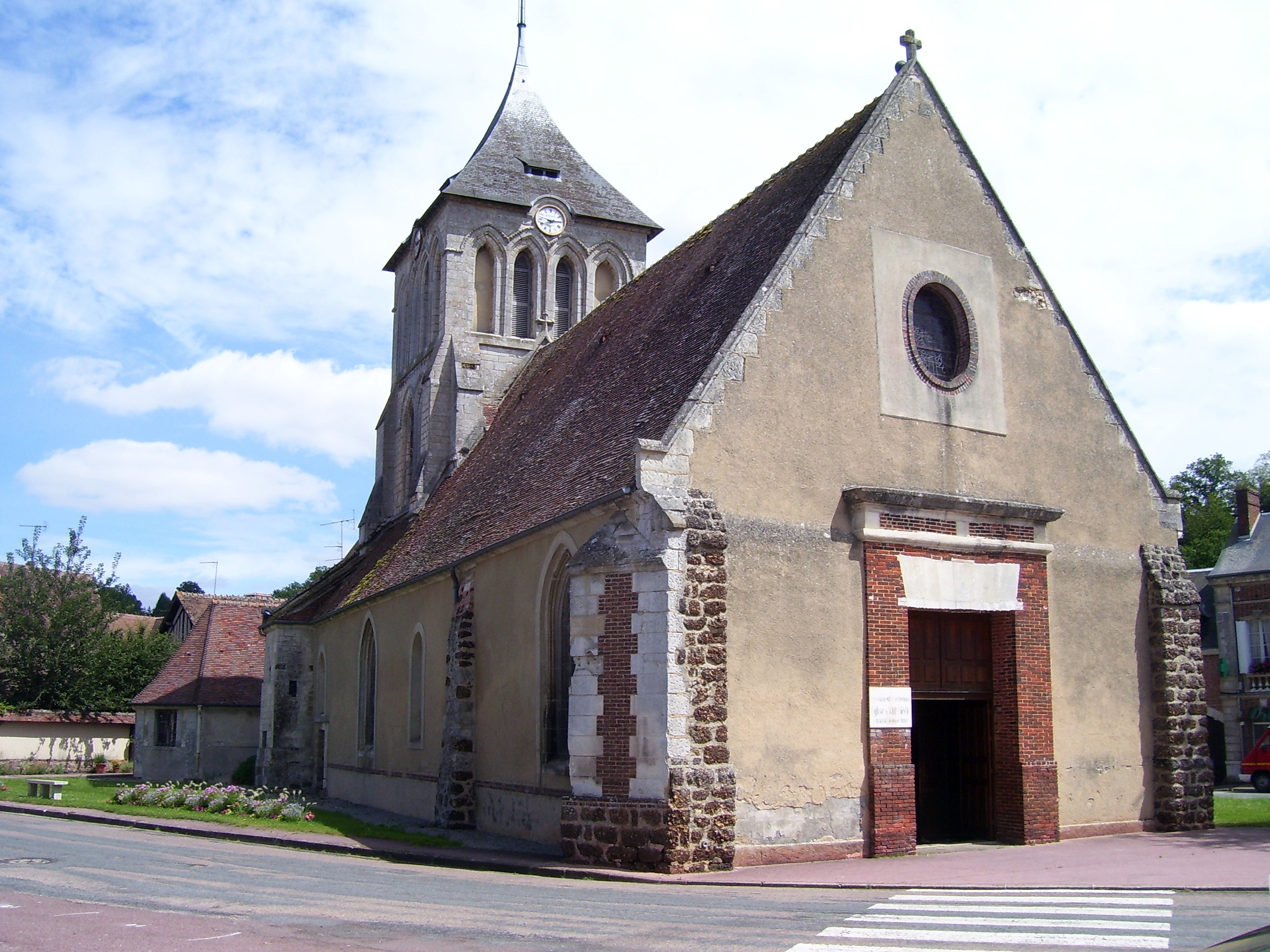 The church Saint-Georges of La Ferrière-sur-Risle (Eure, France) was built in the 13th century.